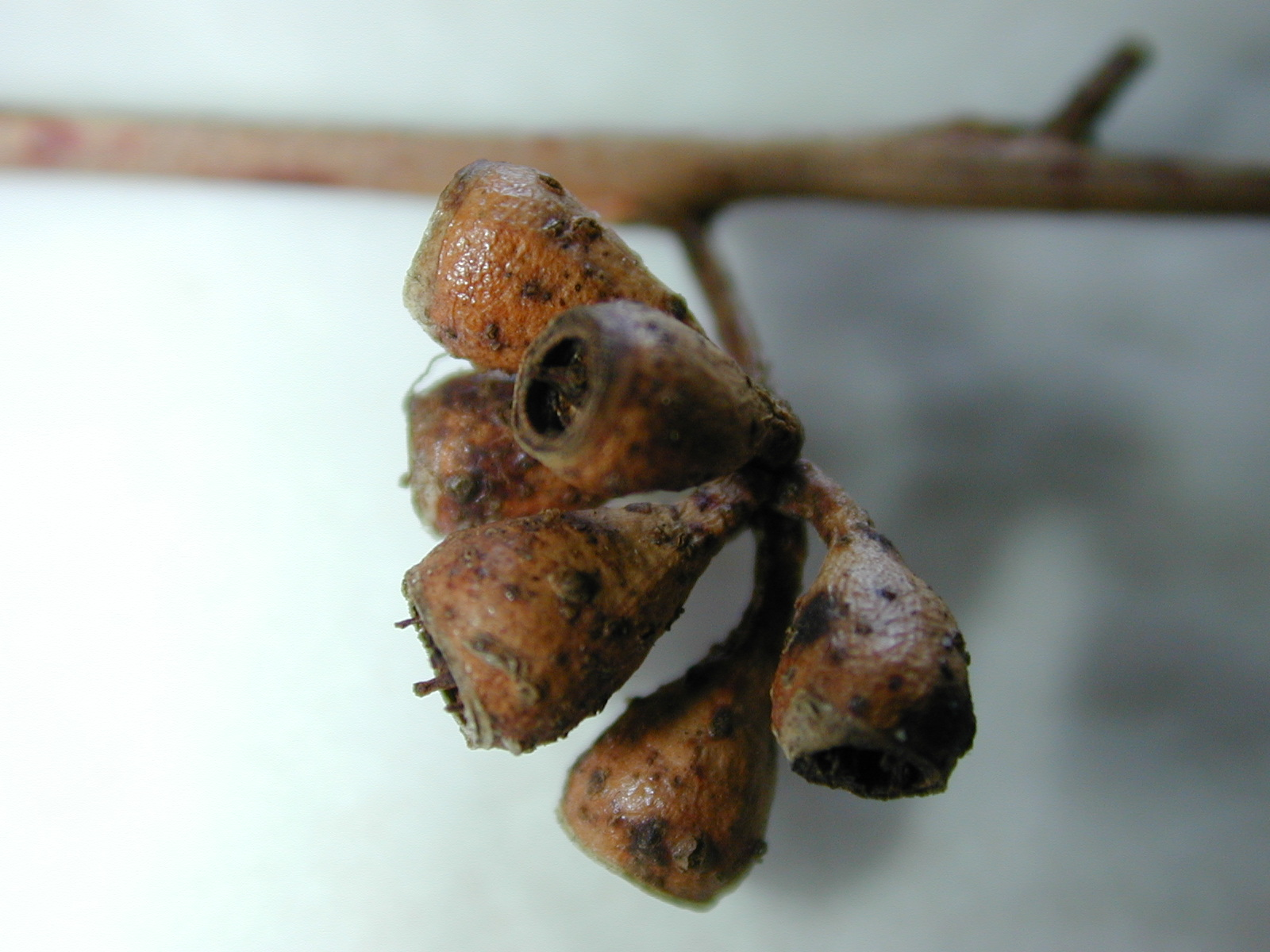 Eucalyptus crebra (narrow leaved ironbark). Location: Maui, Hobdy collection